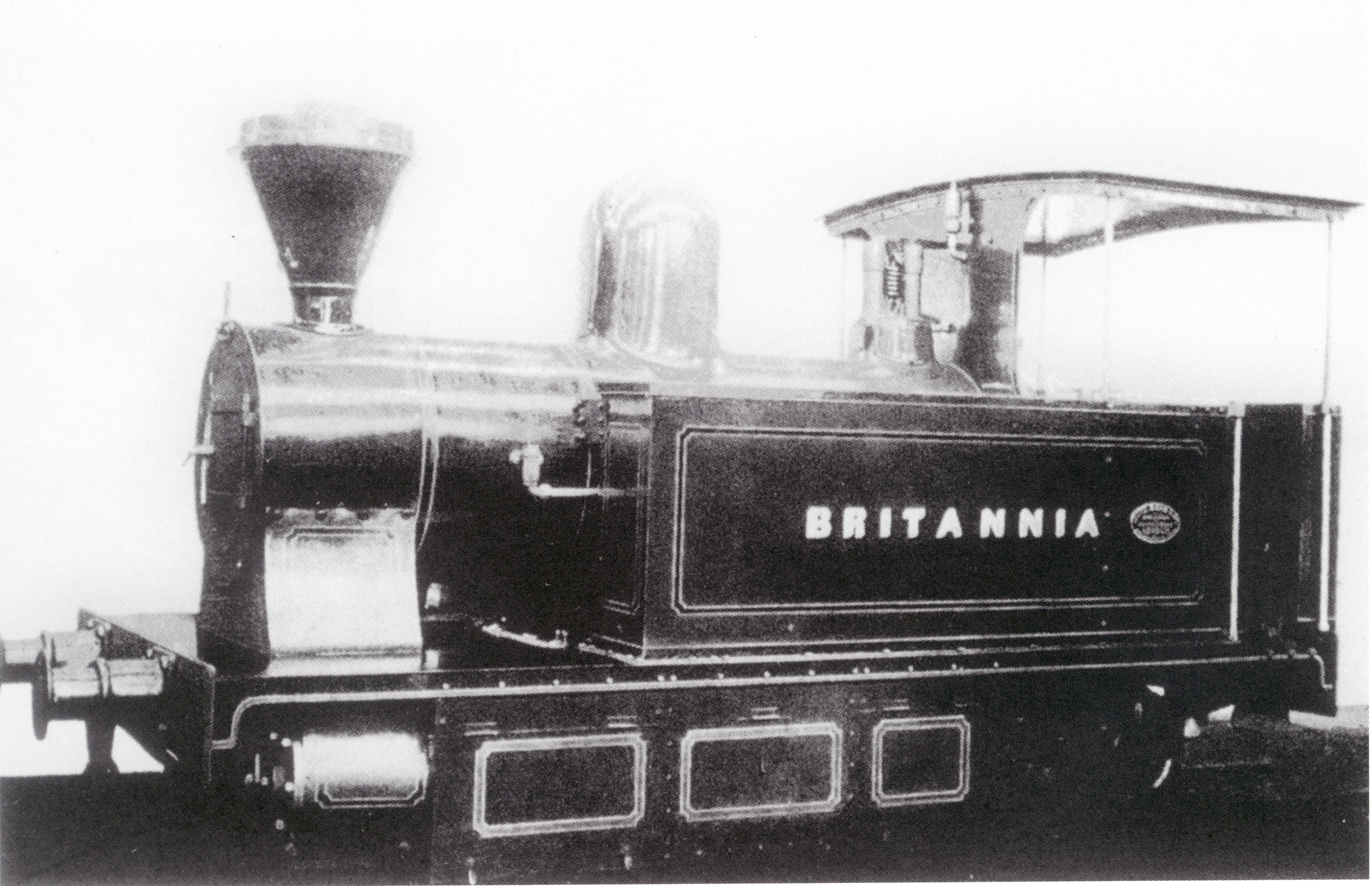 Cape Copper Company 0-4-2T Britannia on a Dick, Kerr works picture